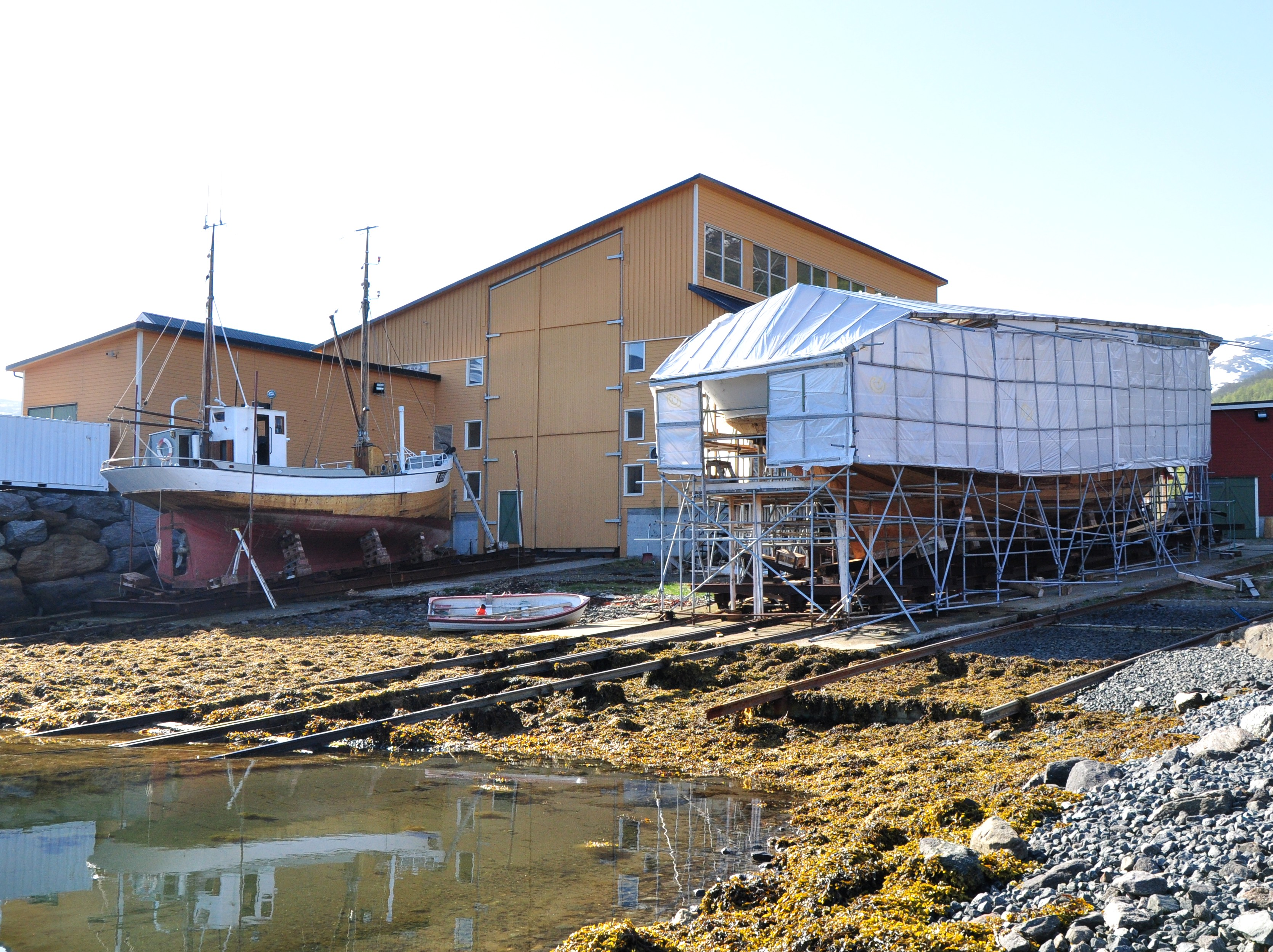 Nordnorsk Fartøyvernsenter, "Fuglø" under arbeid, "Brottsjø" ferdig